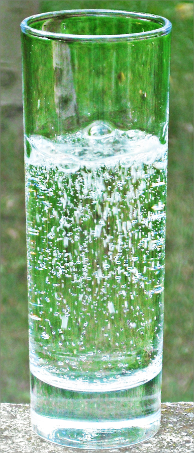 Glass of carbonated water at the garden.